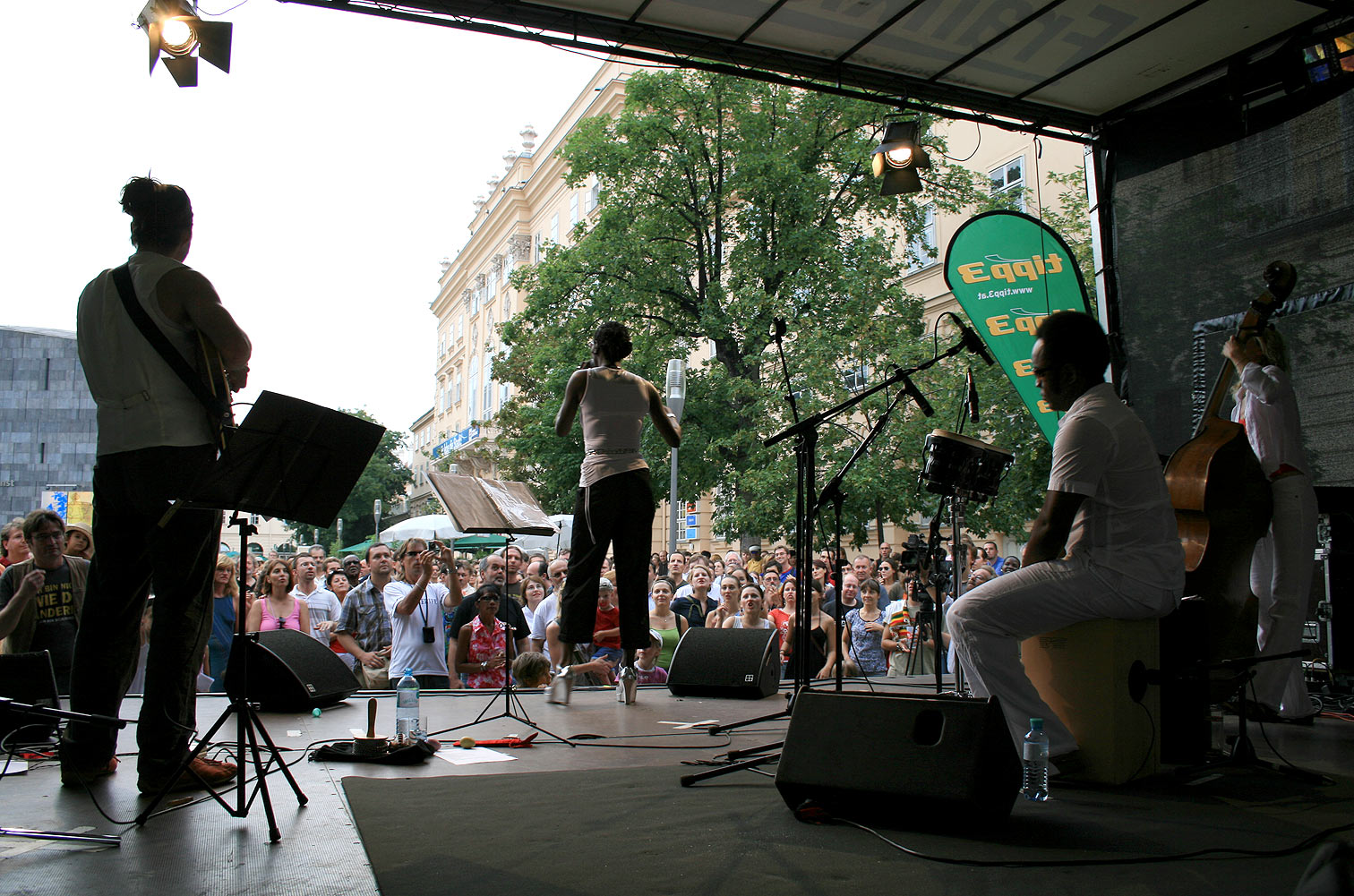 Singer Dorretta Carter at teh Vienna Jazz Festival 2007 (Museumsquartier, Vienna, Austria)